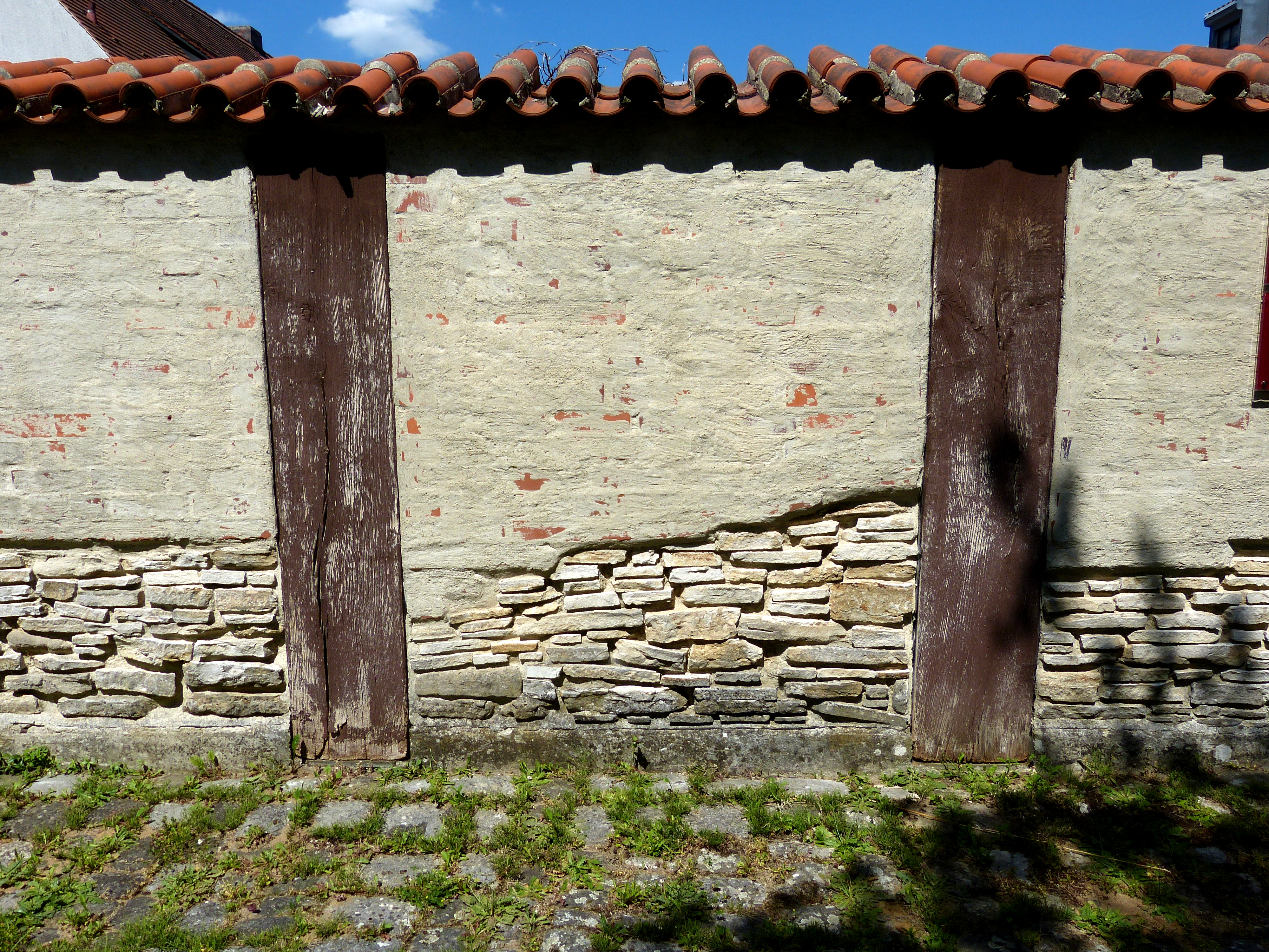 Kelheim ( Lower Bavaria ). Archaeological Museum: Rampart wall ( 1st century BC ) from the La Téne oppidum at Kelheim-Michelsberg.